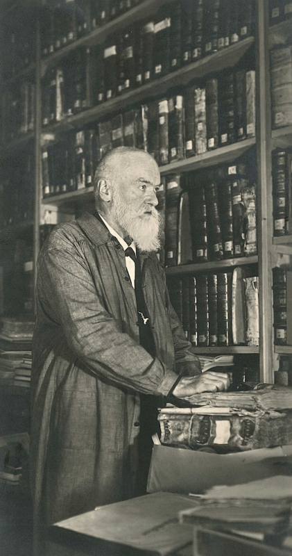 Walther Merz (1868-1938) in the archives